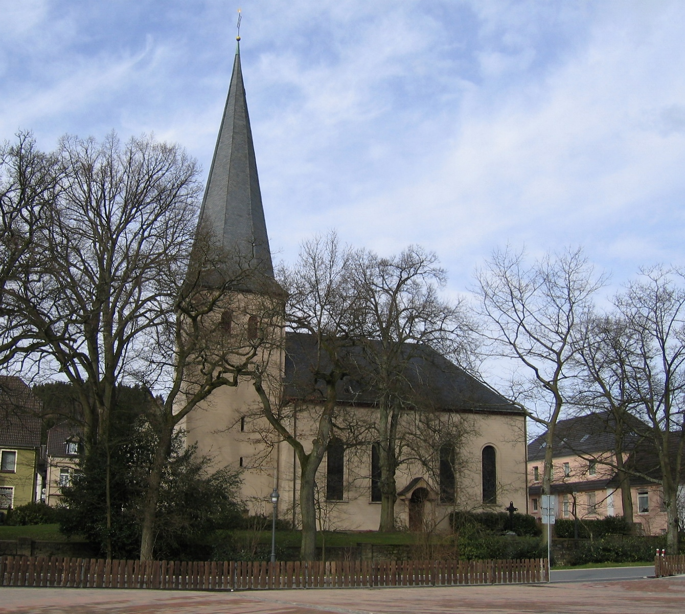 Protestant church (architectural monument) in Neuenrade.